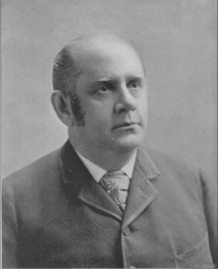 1896 image of Mark Hanna